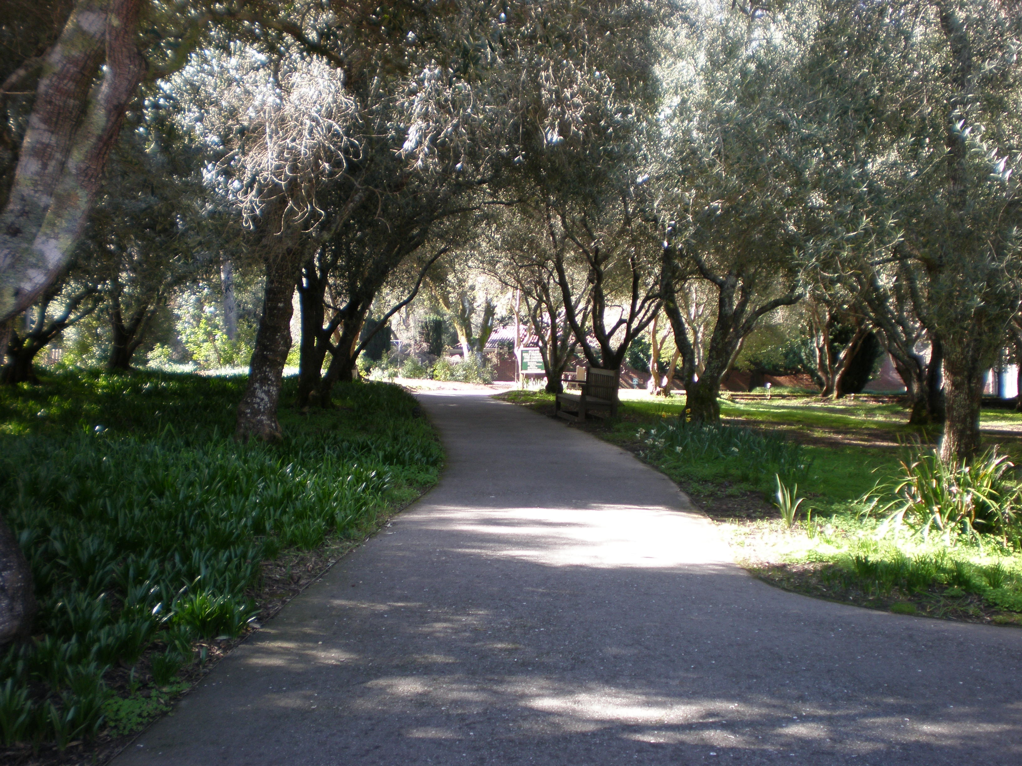 A path on the Filoli grounds in Woodside, California.